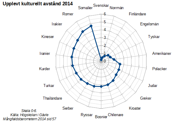 The chart describes the perceived cultural distance by the population of Sweden to the culture of migrant groups. Per country of origin. Source p57 in PDF download